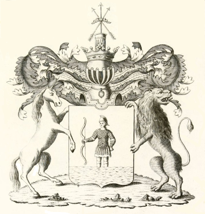 Coat of arms of the Birkin family.